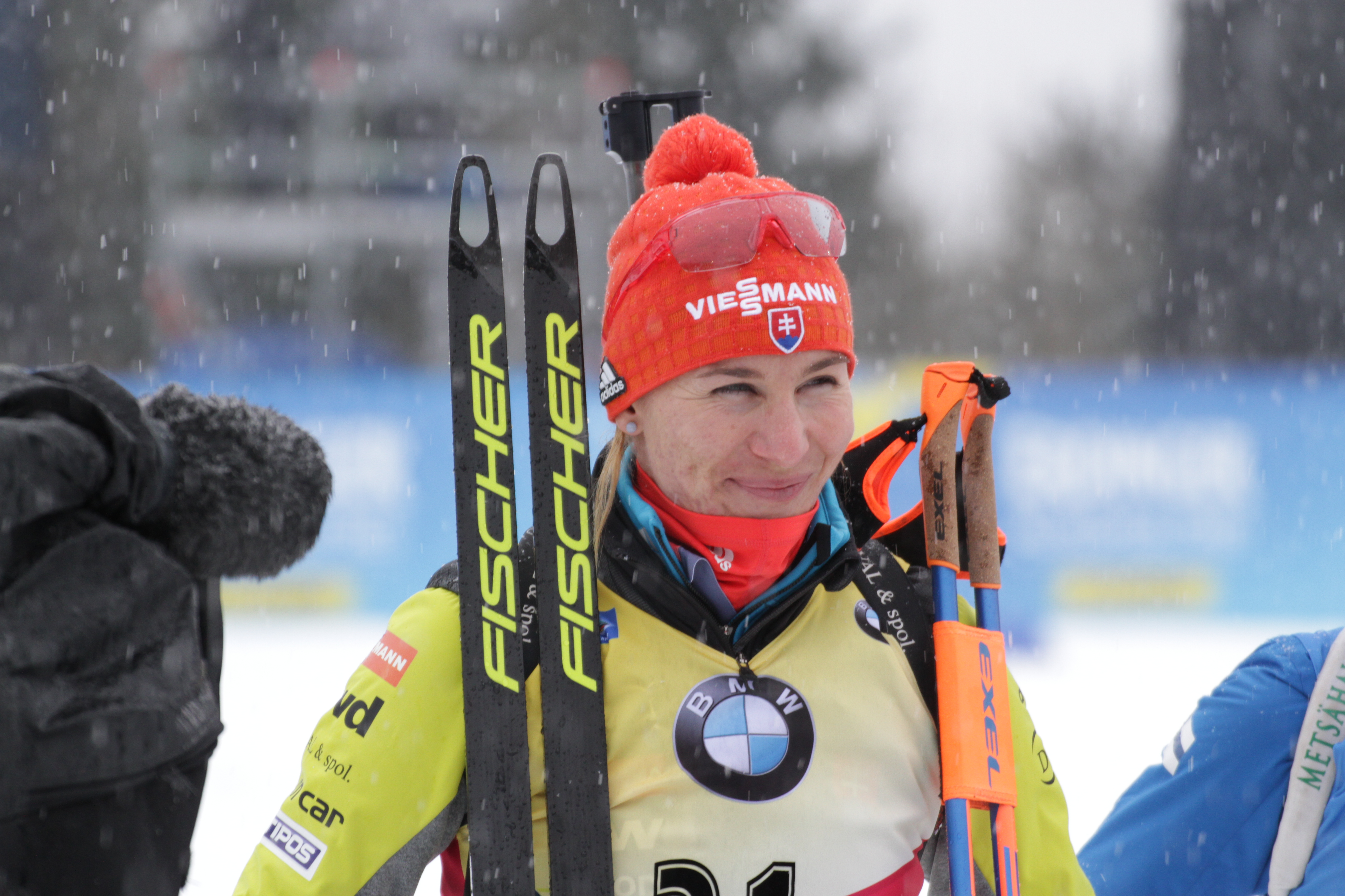 2018 Oberhof Biathlon World Cup - Sprint Women